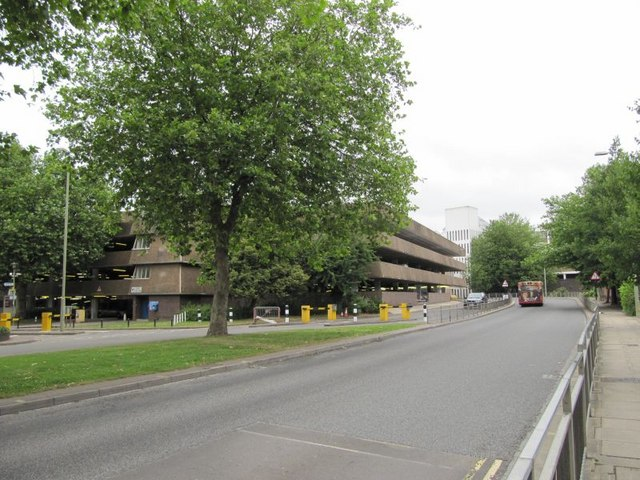 View north along Old Greyfriars Street, Oxford, with the multi-storey car park of the Westgate Cente ahead